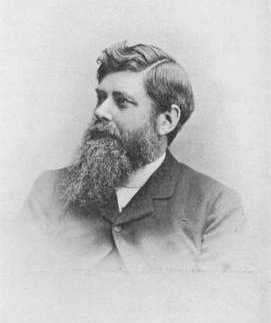 A photograph of Herbert Armitage James, Headmaster of Rugby School, published in The Musical Times to accompany an article entitled "Rugby School and Its Music". Dr James was later President of St John's College